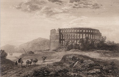 scan of engraving by Thomas Allason, executed c1820